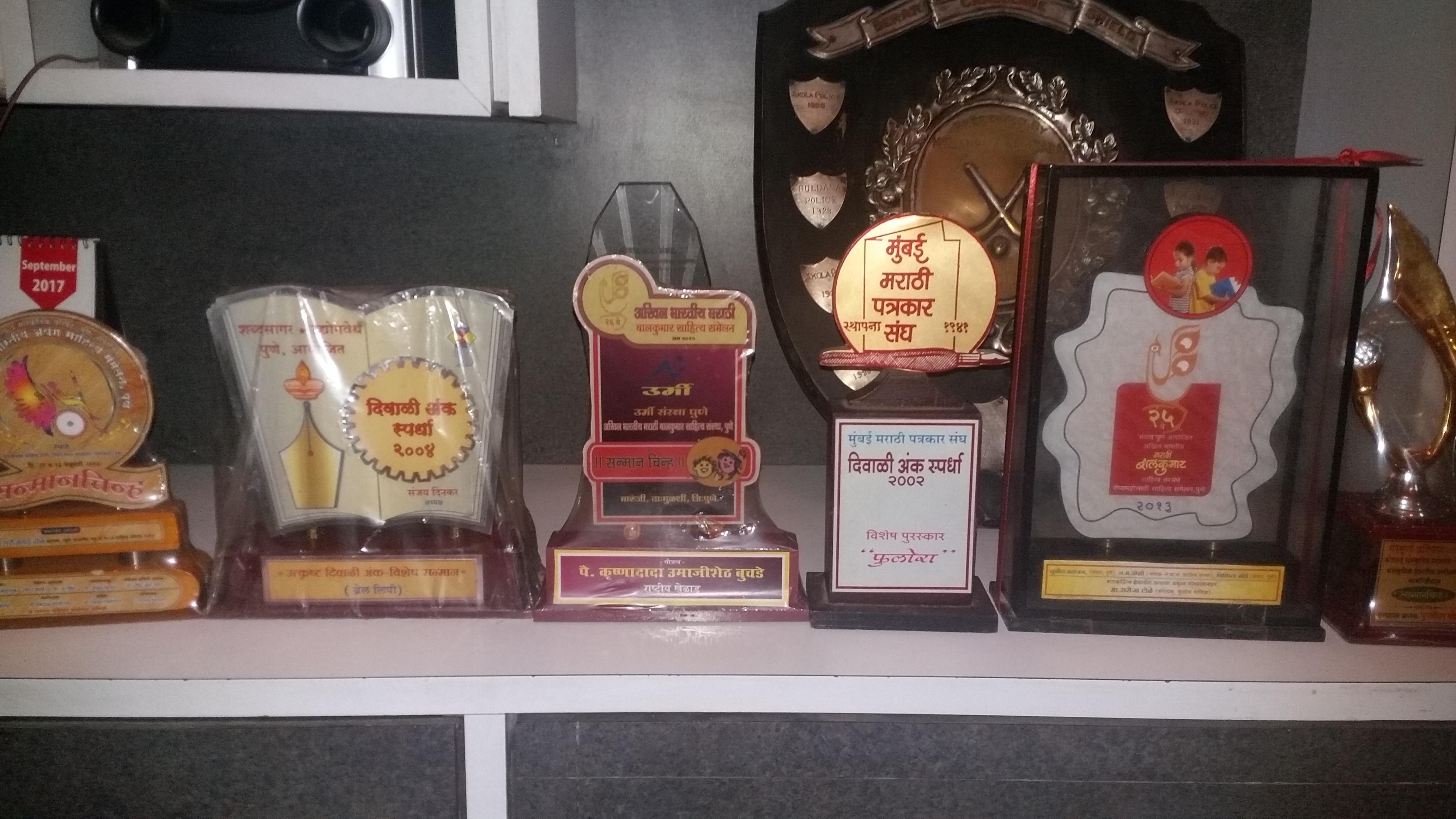 सौ सरोज टोळे यांना मिळालेले पुरस्कार